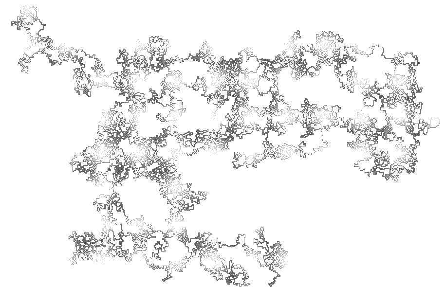 Polymer 2D as a random walk without auto-intersection.